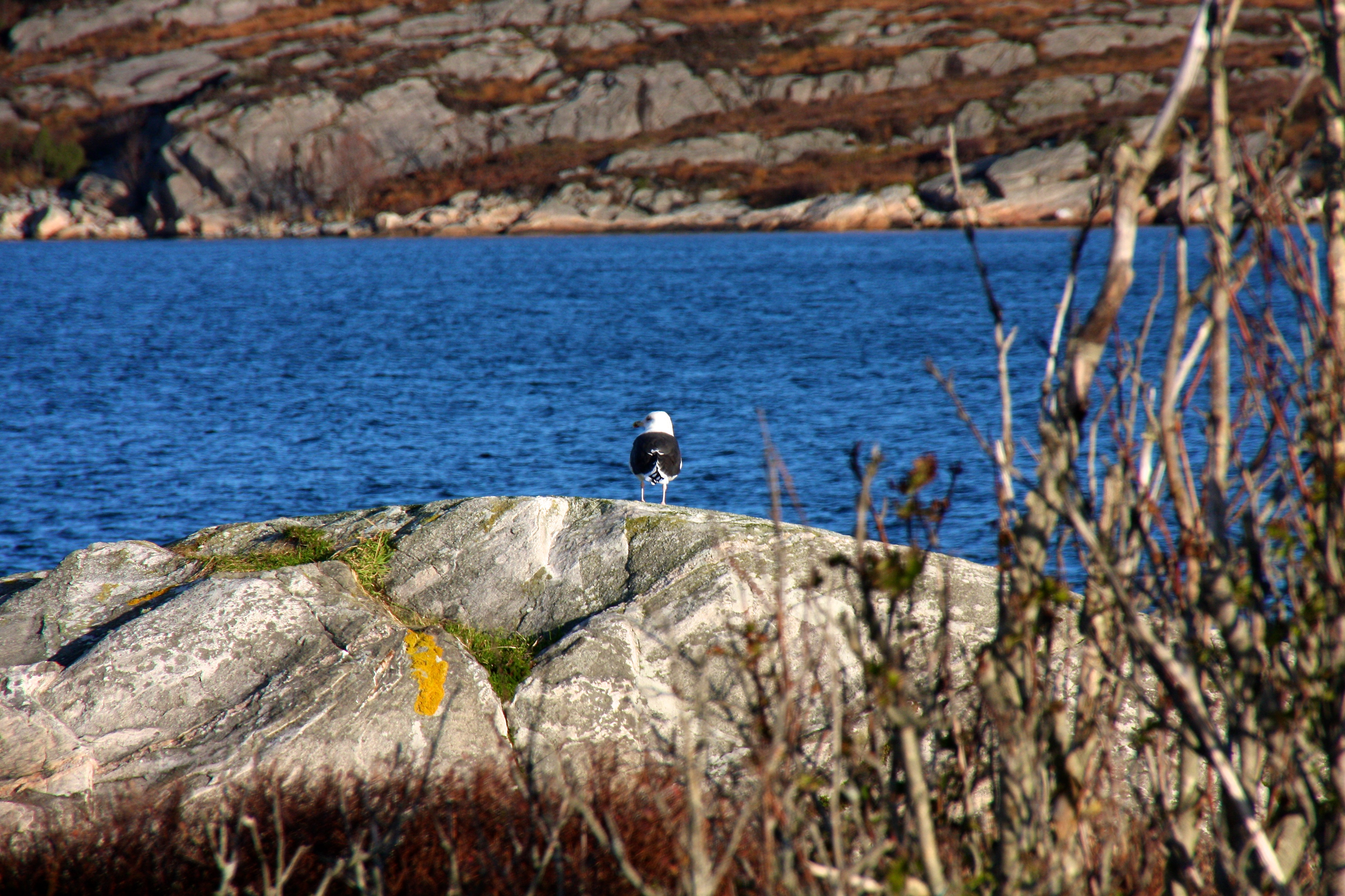 Gulen municipality, Norway.